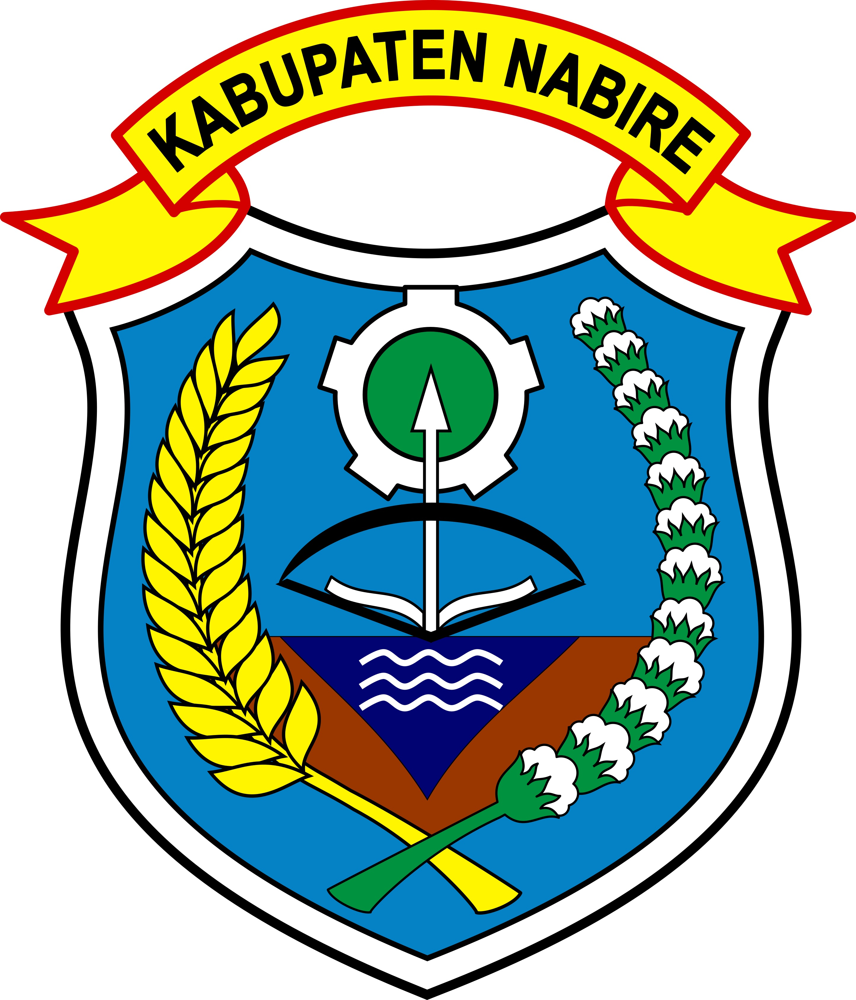 Nabire Regency Seal